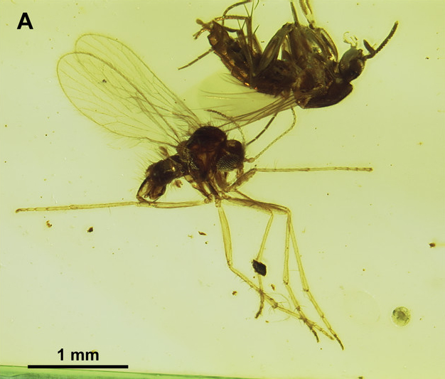 Protopsychodinae. (A) Mandalayia beumersorum ♂, Holotype specimen.